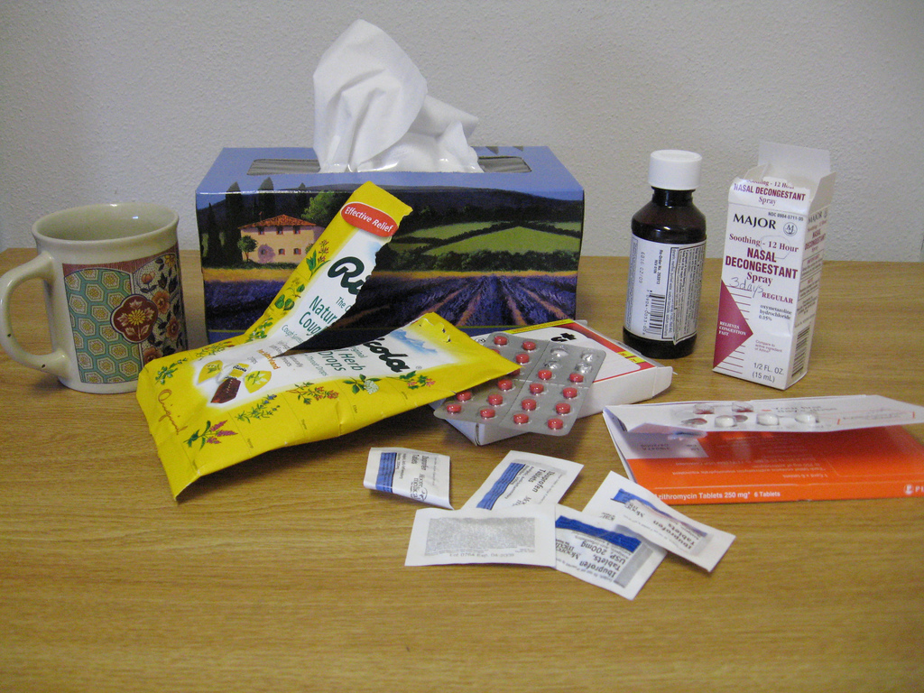 I've been sick for a couple of weeks now. I went to my university's health center, where they diagnosed me with a sinus infection and loaded me up with lots of medicine.